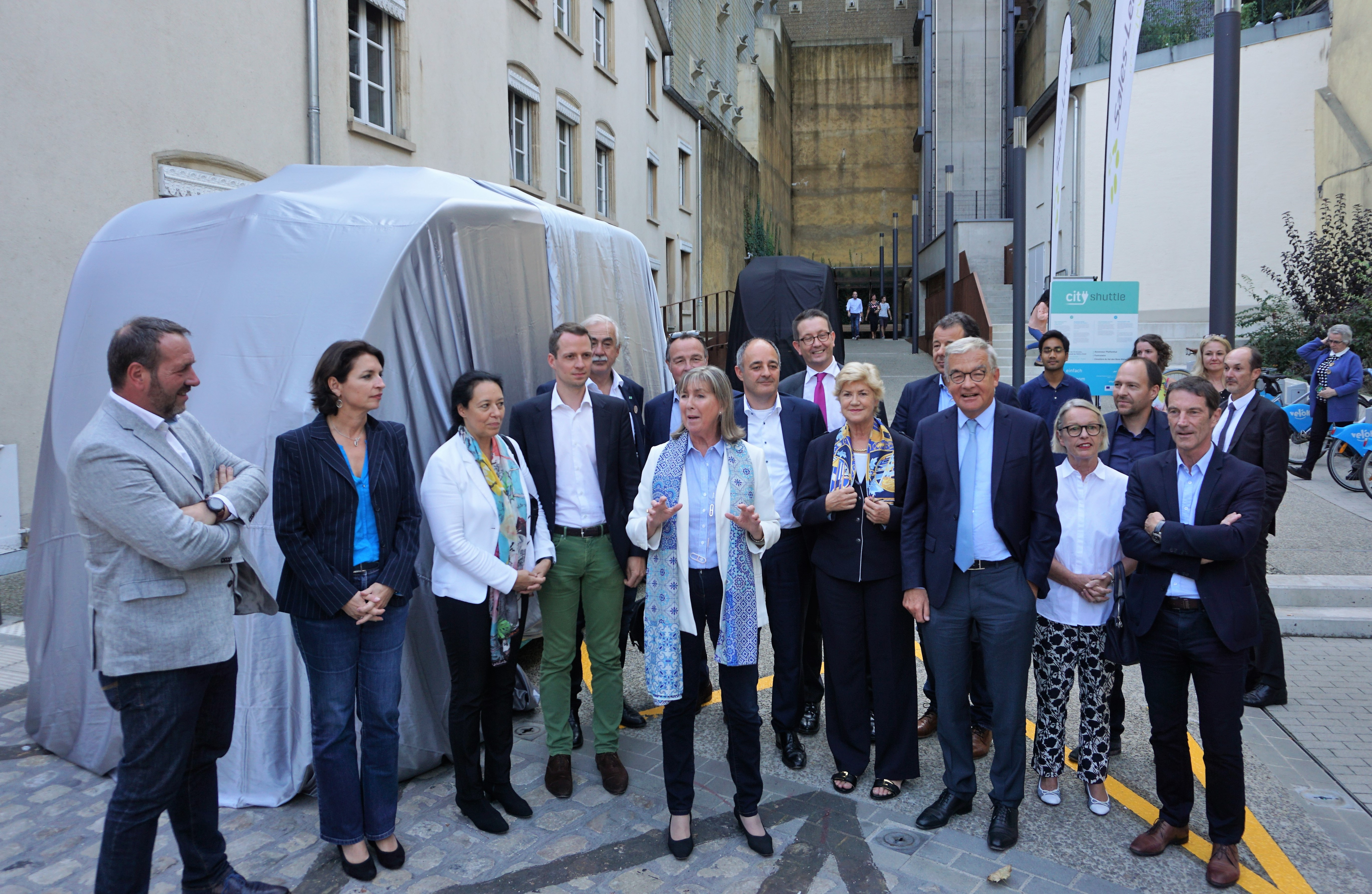 Luxembourg, inauguration of "City Shuttle", an electric & autonomus shuttle.